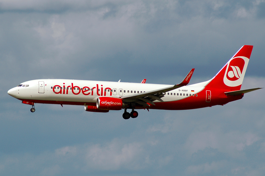 Aircraft of German airline Air Berlin in the modern colours, first used in 2008.